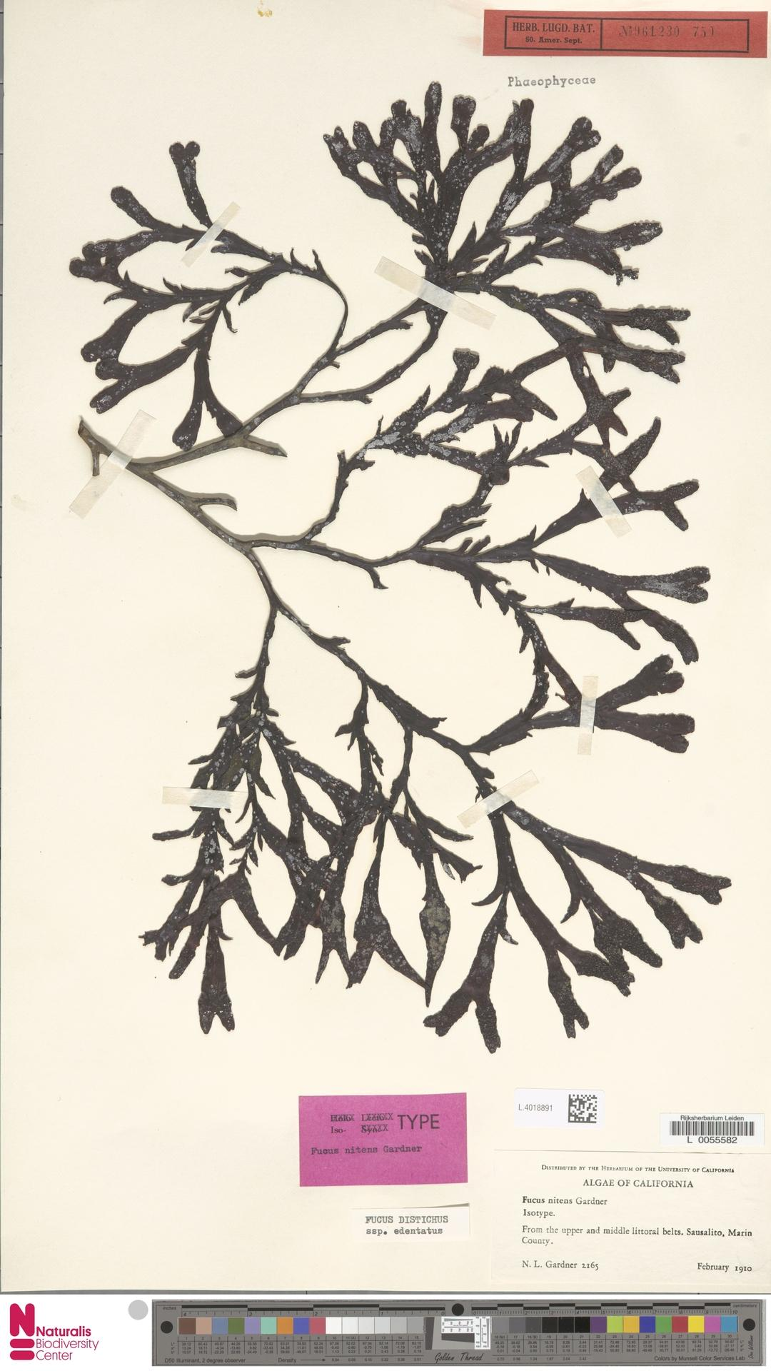 Fucus nitens N.L.Gardner (type of) - Fucus distichus L. subsp. edentatus (Bach.Pyl.) Powell (species)